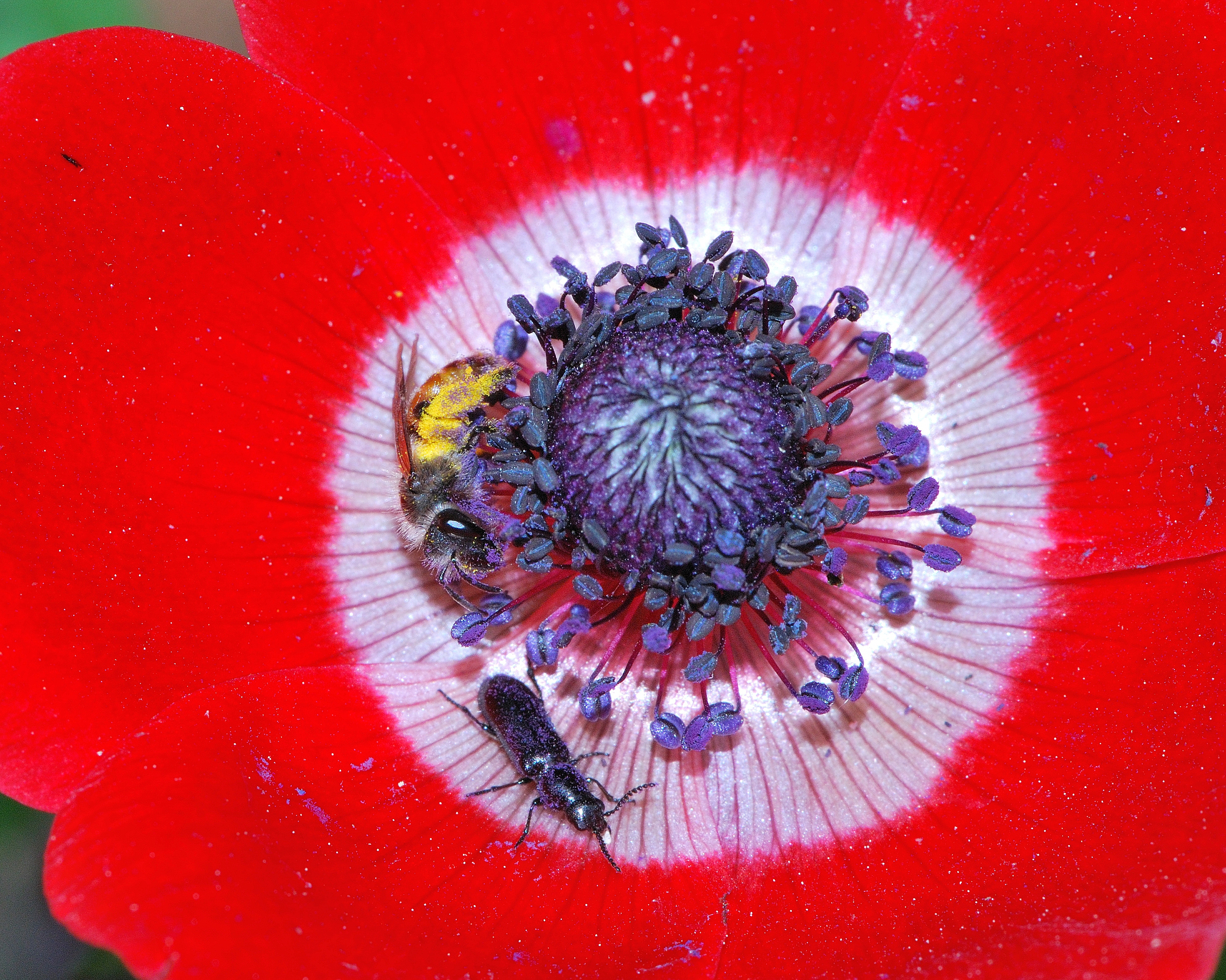 A solitary bee (female Andrena krausiella Gusenleitner, 1998) and a beetle on Anemone coronaria, Henyon Rakit, Mount Carmel, Israel, March 8, 2010.